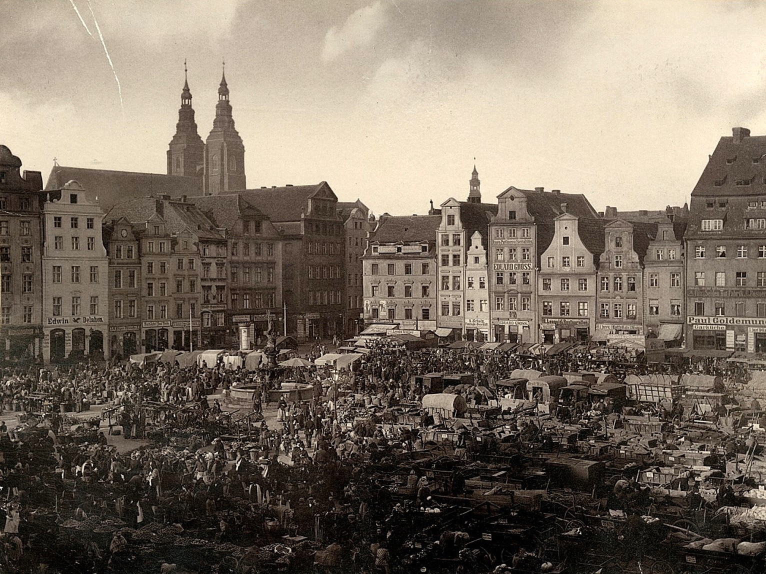 New Market Square in Wrocław